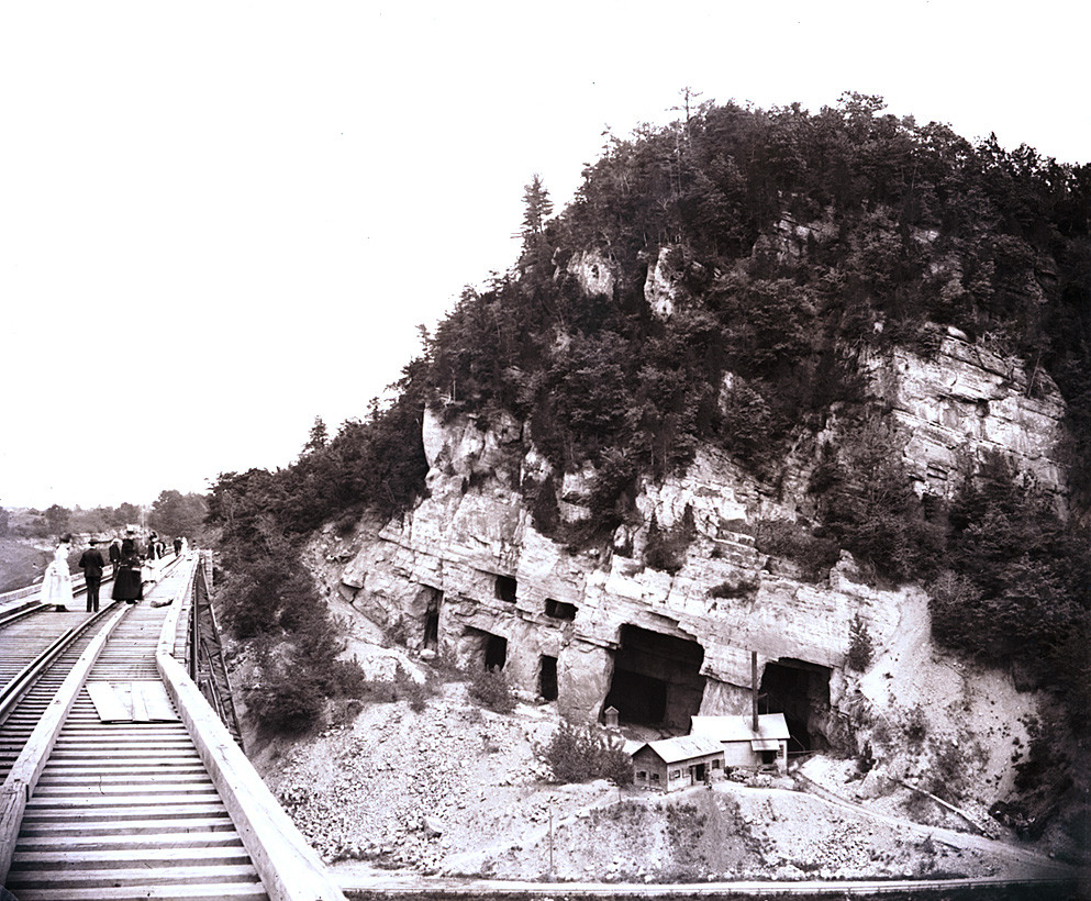 A photo of the railroad bridge (left) in Rosendale, New York, along with nearby Joppenbergh Mountain (right). The mine shafts visible on the mountain were destroyed in an 1899 cave-in.